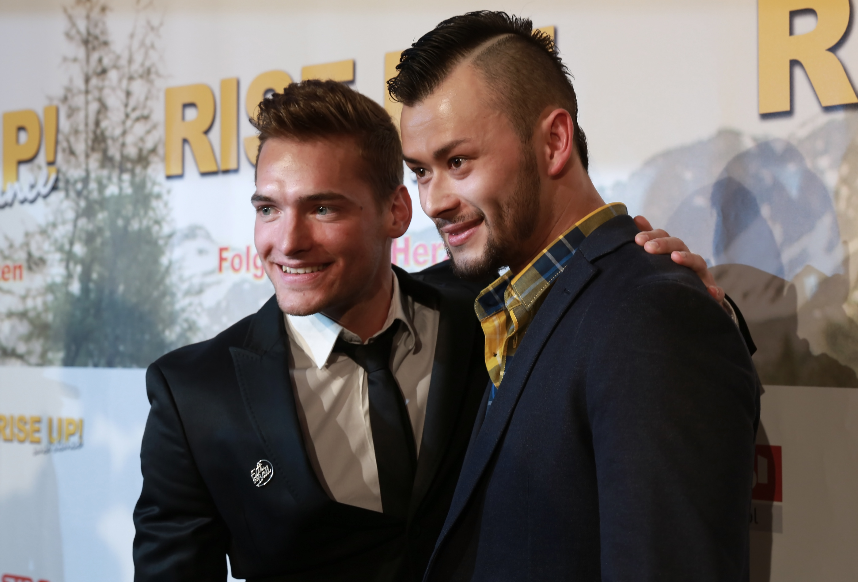 Vinzenz Wagner and Lukas Plöchl at the premiere of Rise Up! And Dance at UCI Kinowelt Millennium City in Vienna.